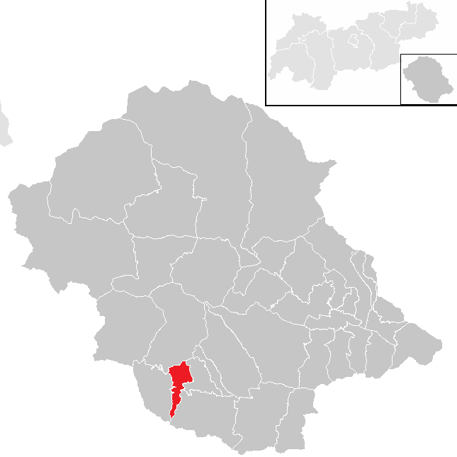 District Lienz